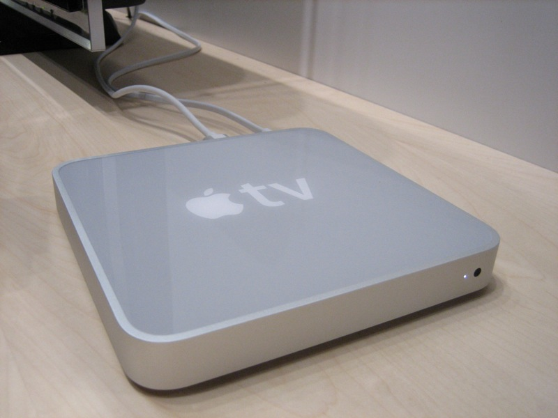 Apple TV at Macworld San Francisco